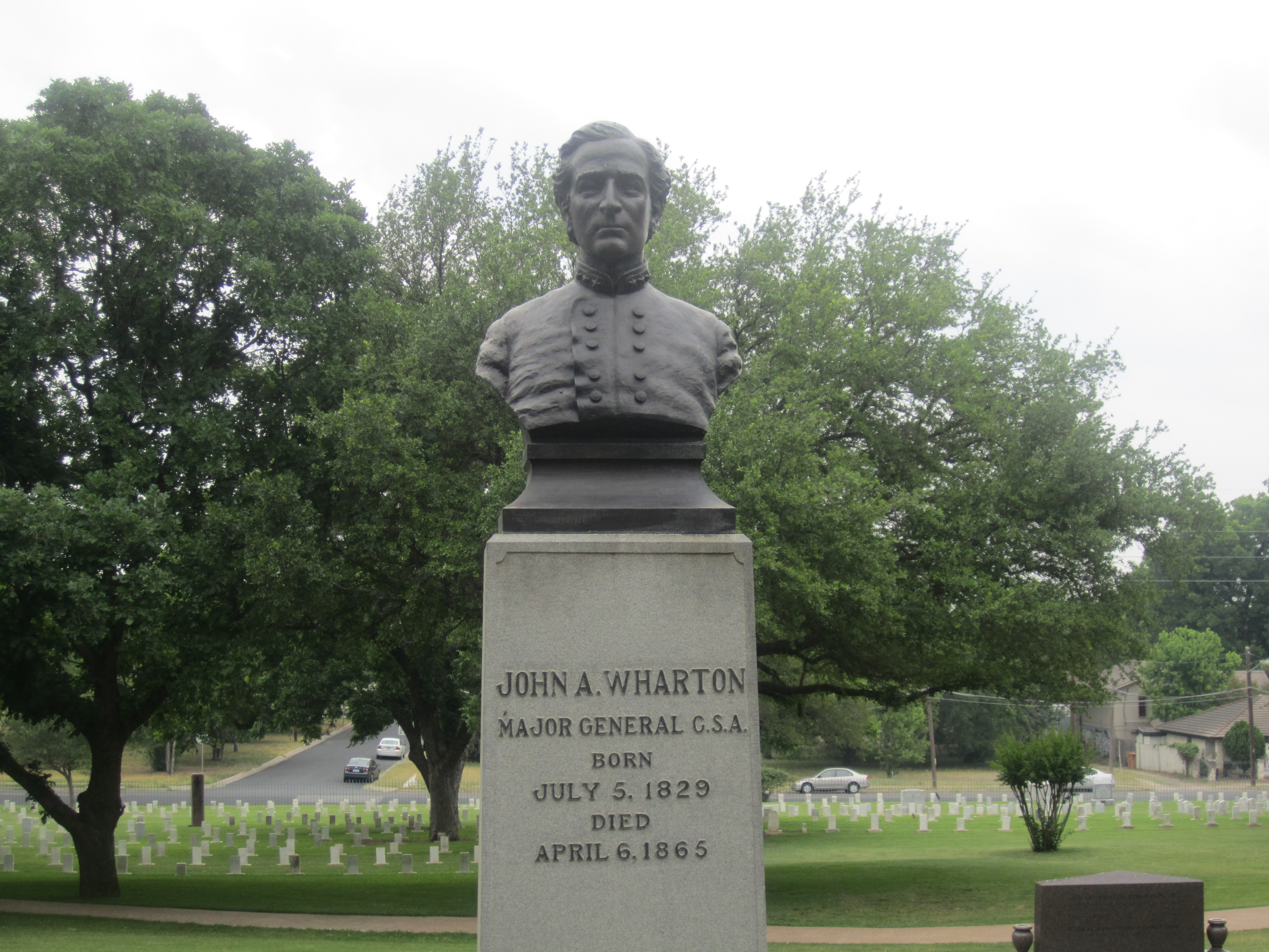 I took photo with Canon camera of John A. Wharton monumnet at TX State Cemetery in Austin.